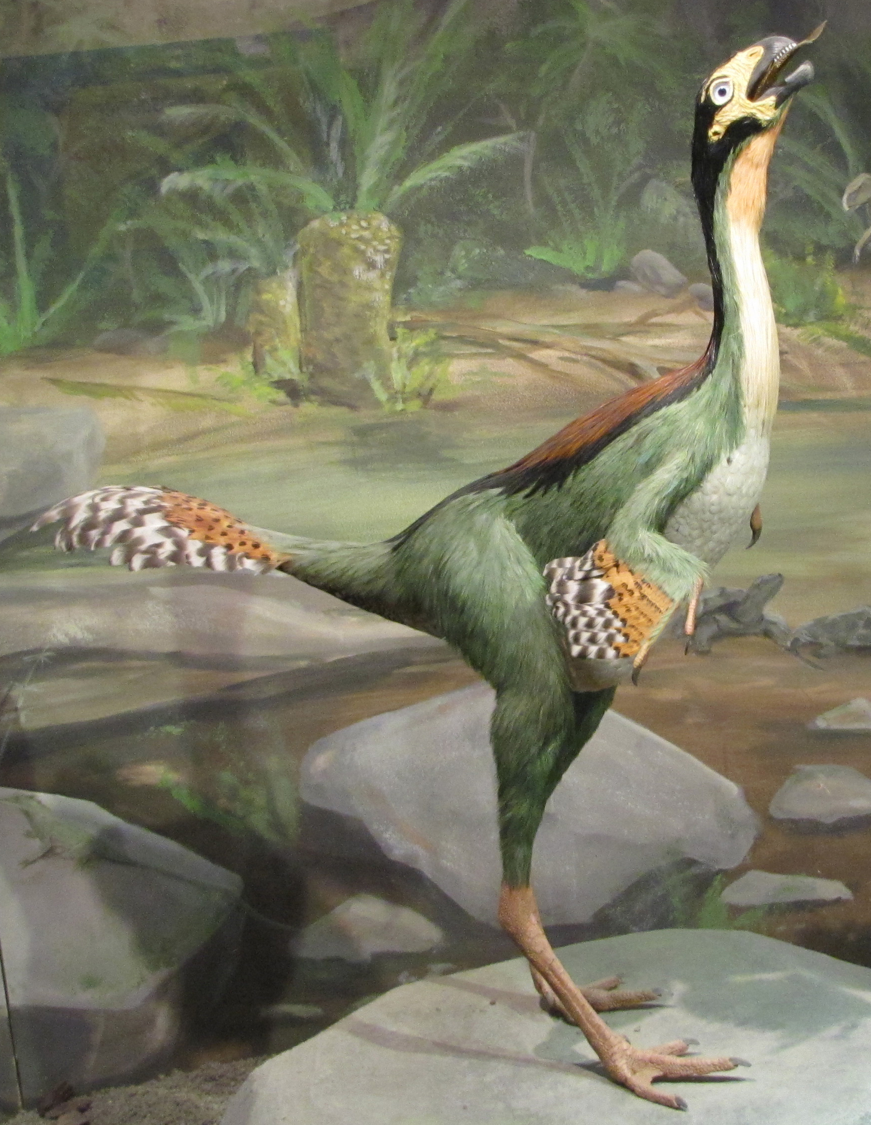 Reconstruction of the oviraptorid Caudipteryx at the Sauriermuseum of Aathal (Switzerland).